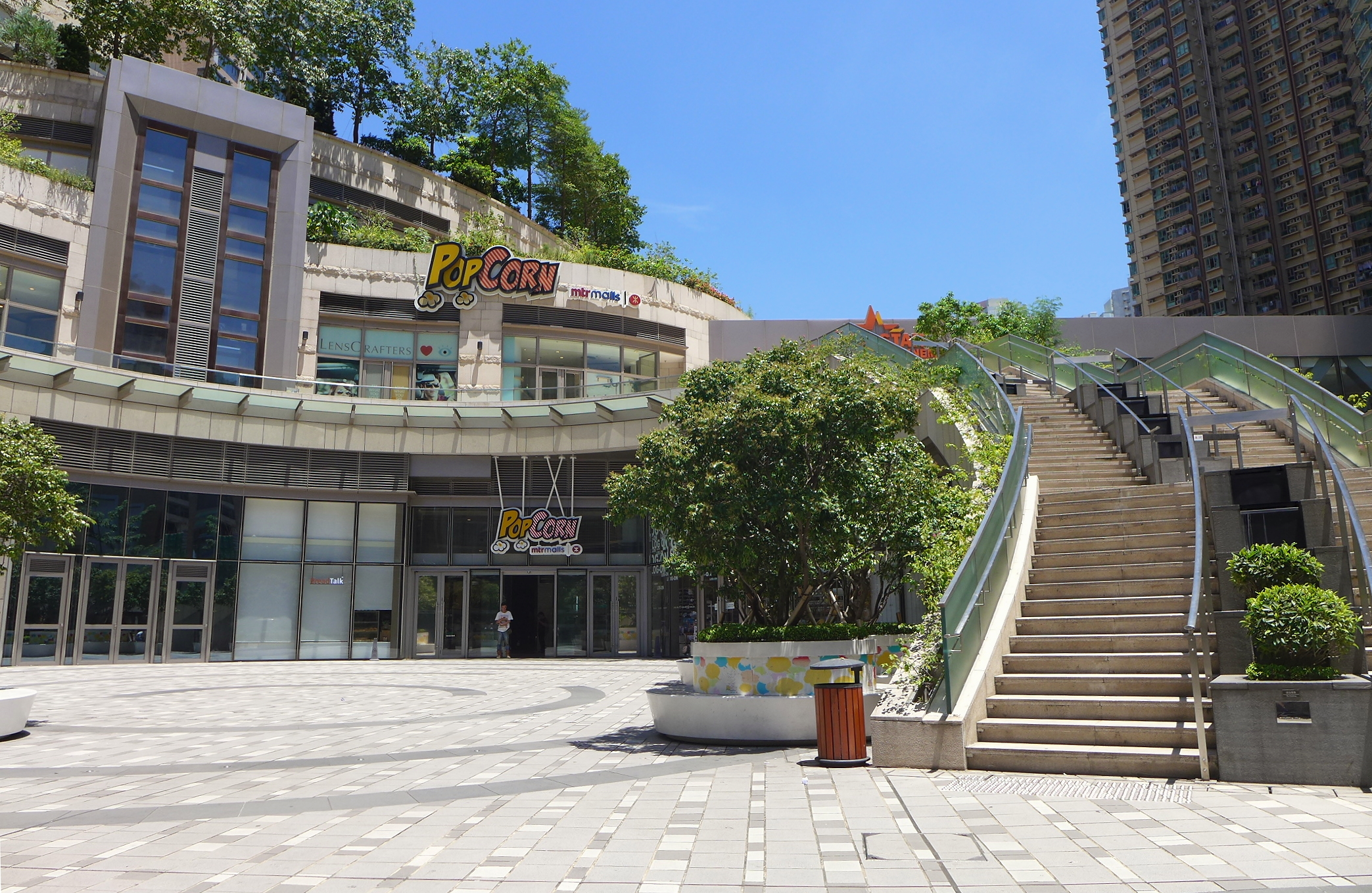 PopCorn I East Entrance